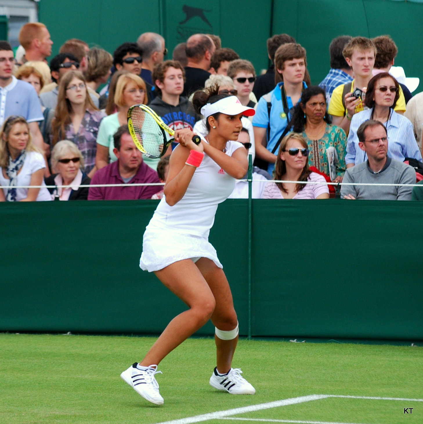 Sania Mirza during her first round match with Virginie Razzano, Day 2 of Wimbledon 2011